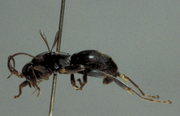 Rhopalosomatic wasp of the Olixon genus.